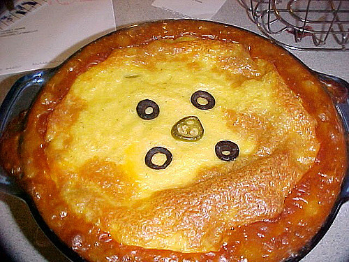 A whole tamale pie